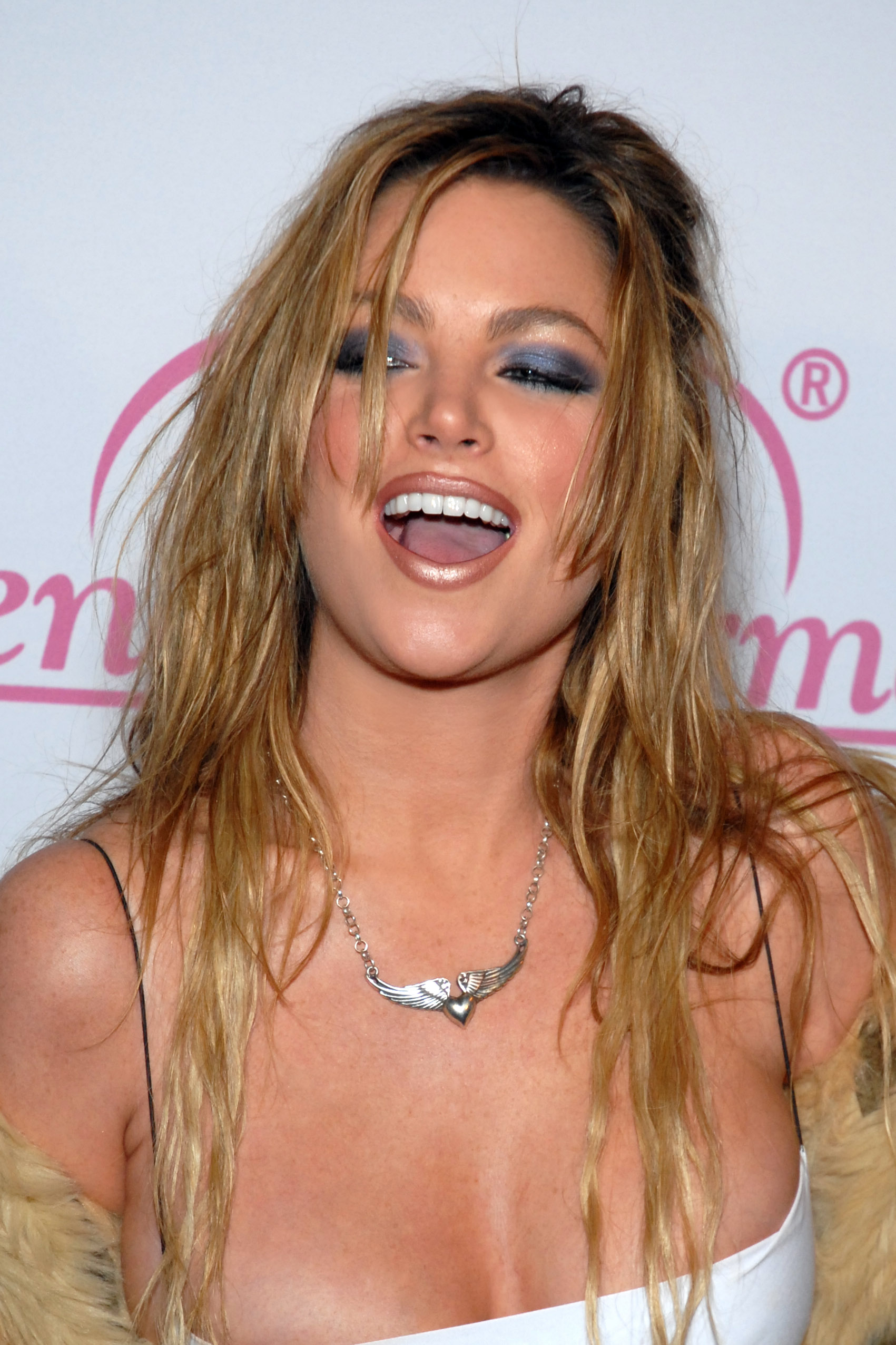 Tamara Witmer attending the Benchwarmer Valentines Party at Area, Hollywood, CA on 02/12/2008 - Photo by Glenn Francis of